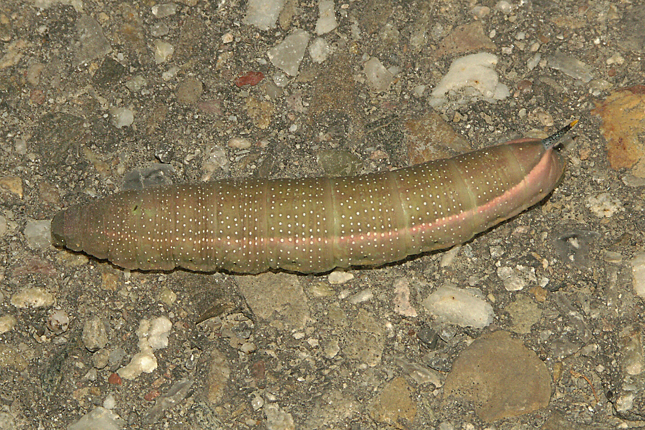 Hummingbird Hawk-moth